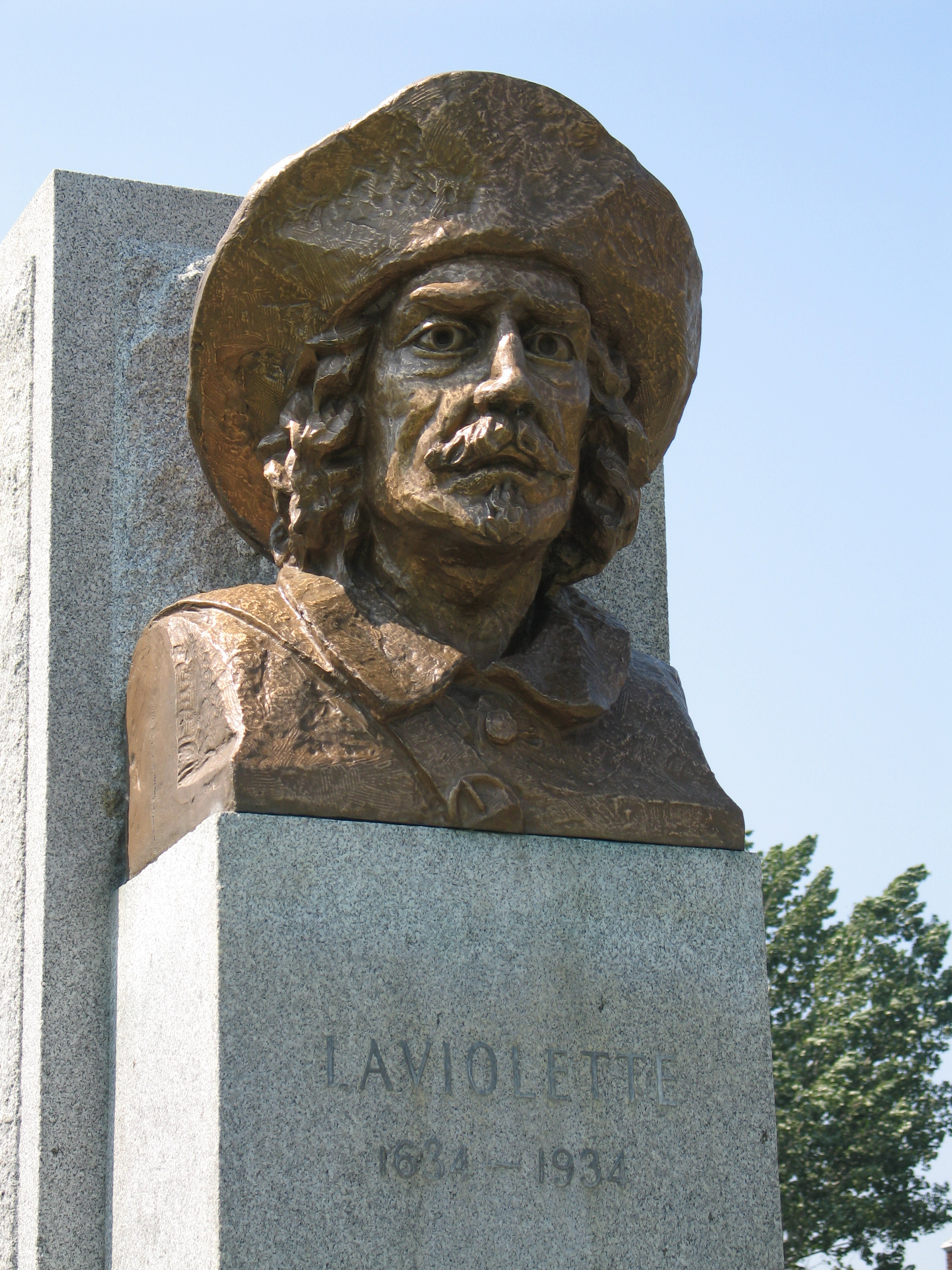 Bust of Laviolette, founder of Trois-Rivières, Quebec. The monument was erected in 1934, for the city's 300th anniversary. Photo: Claude Boucher, June 18, 2006.